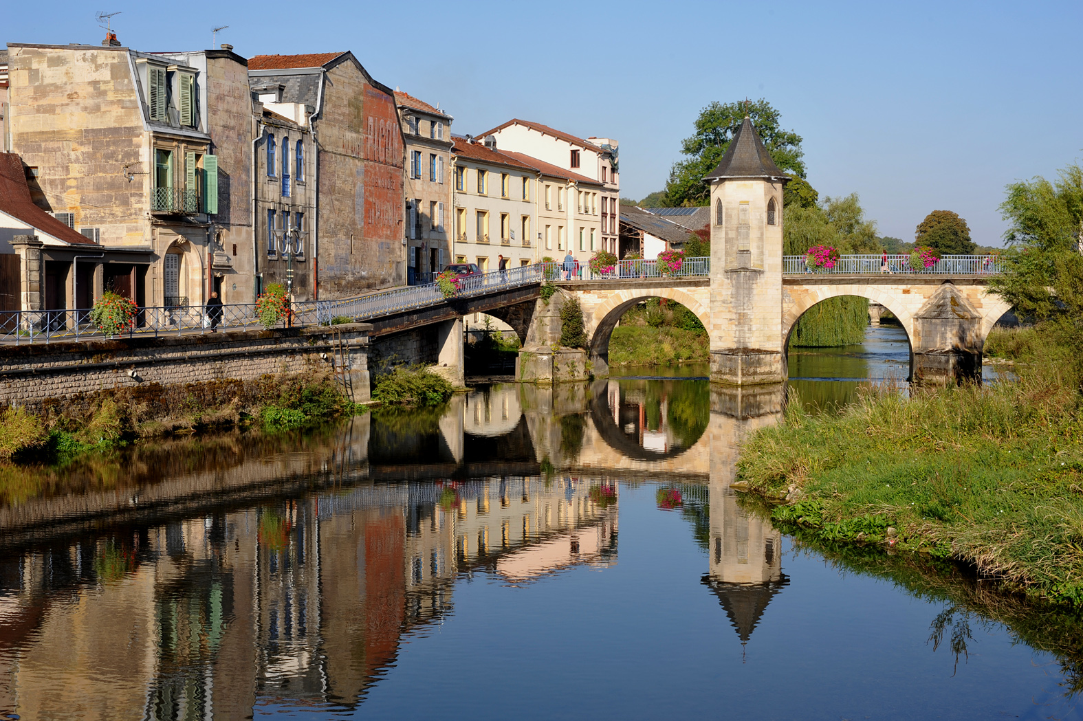 Pont Notre-Dame over the Ornain river in Bar-le-Duc; Meuse, France.